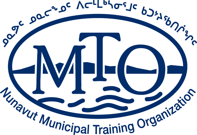 This is the MTO's logo displaying both English and Inuktitut name